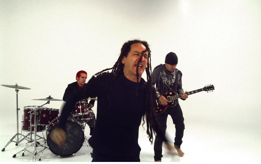 In your video Descalzo y al vacio